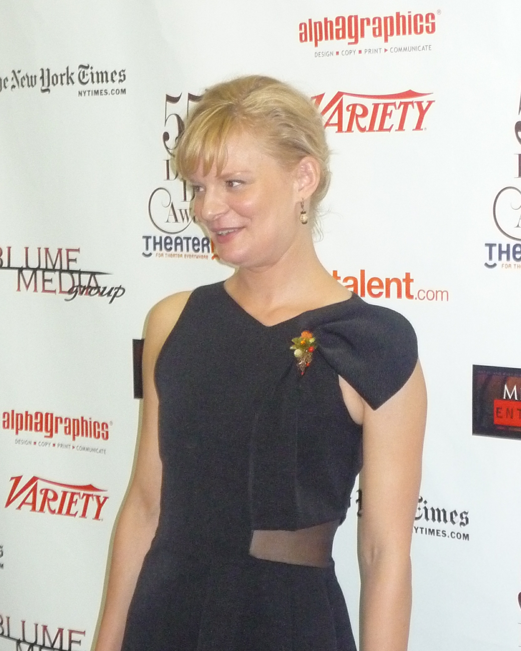 Actress Martha Plimpton